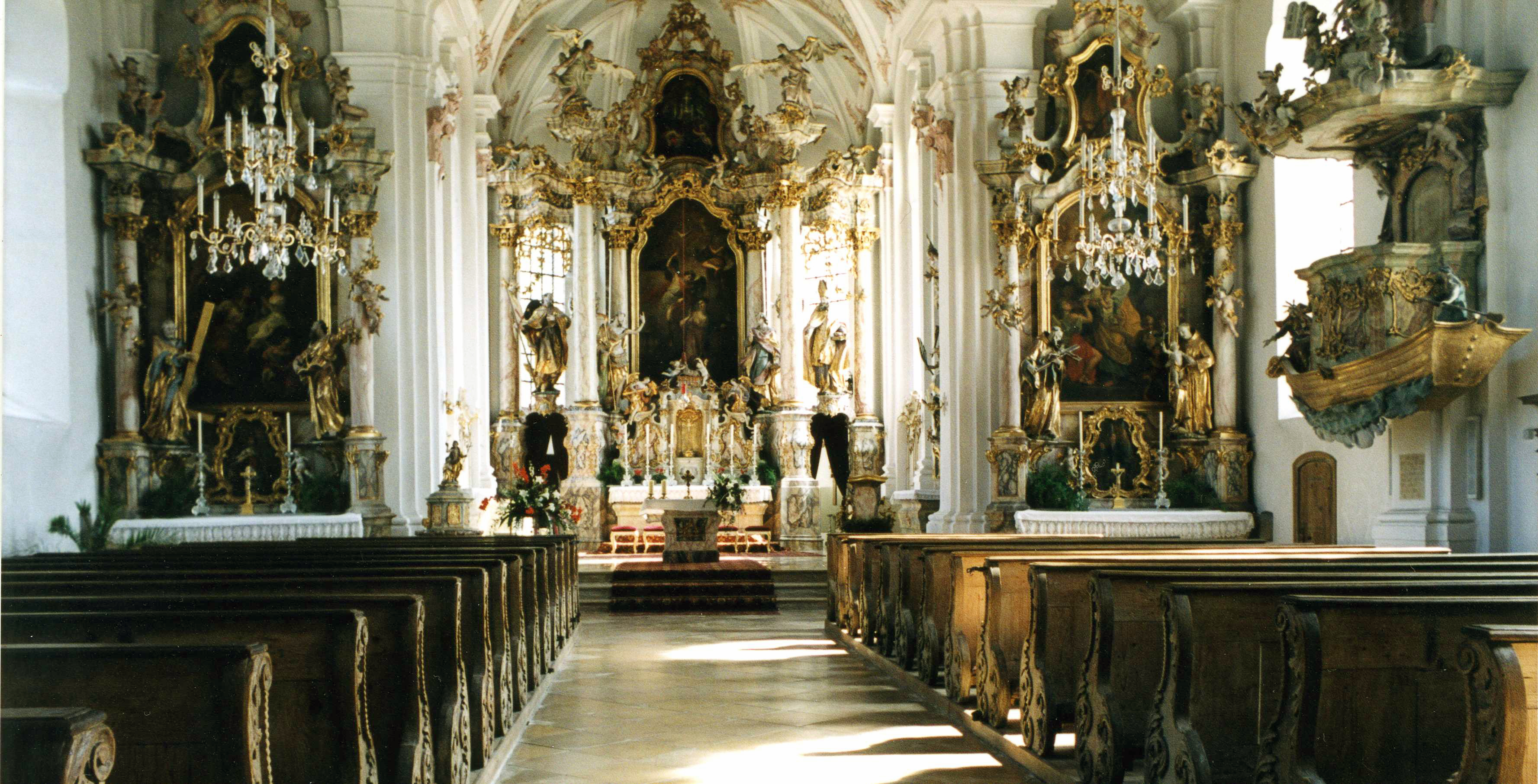 High altar, lateral altars and pulpit in the form of a boat, Altenerding baroque church, Upper Bavaria.